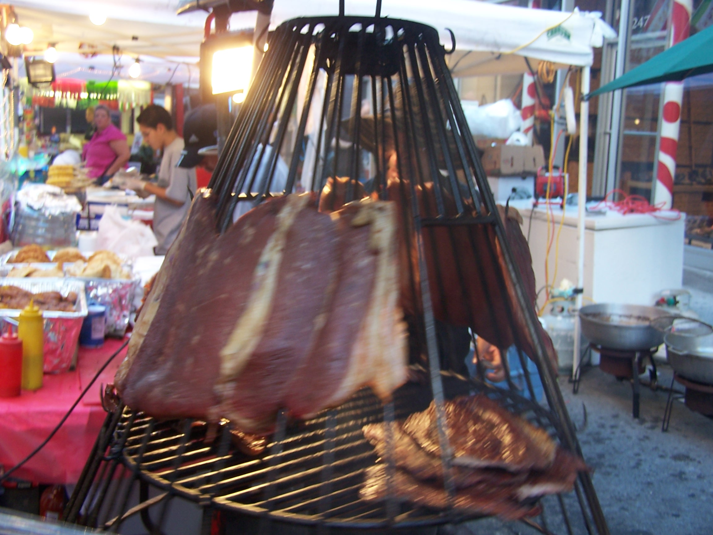 Orinoco Plains traditional BBQ Colombian style